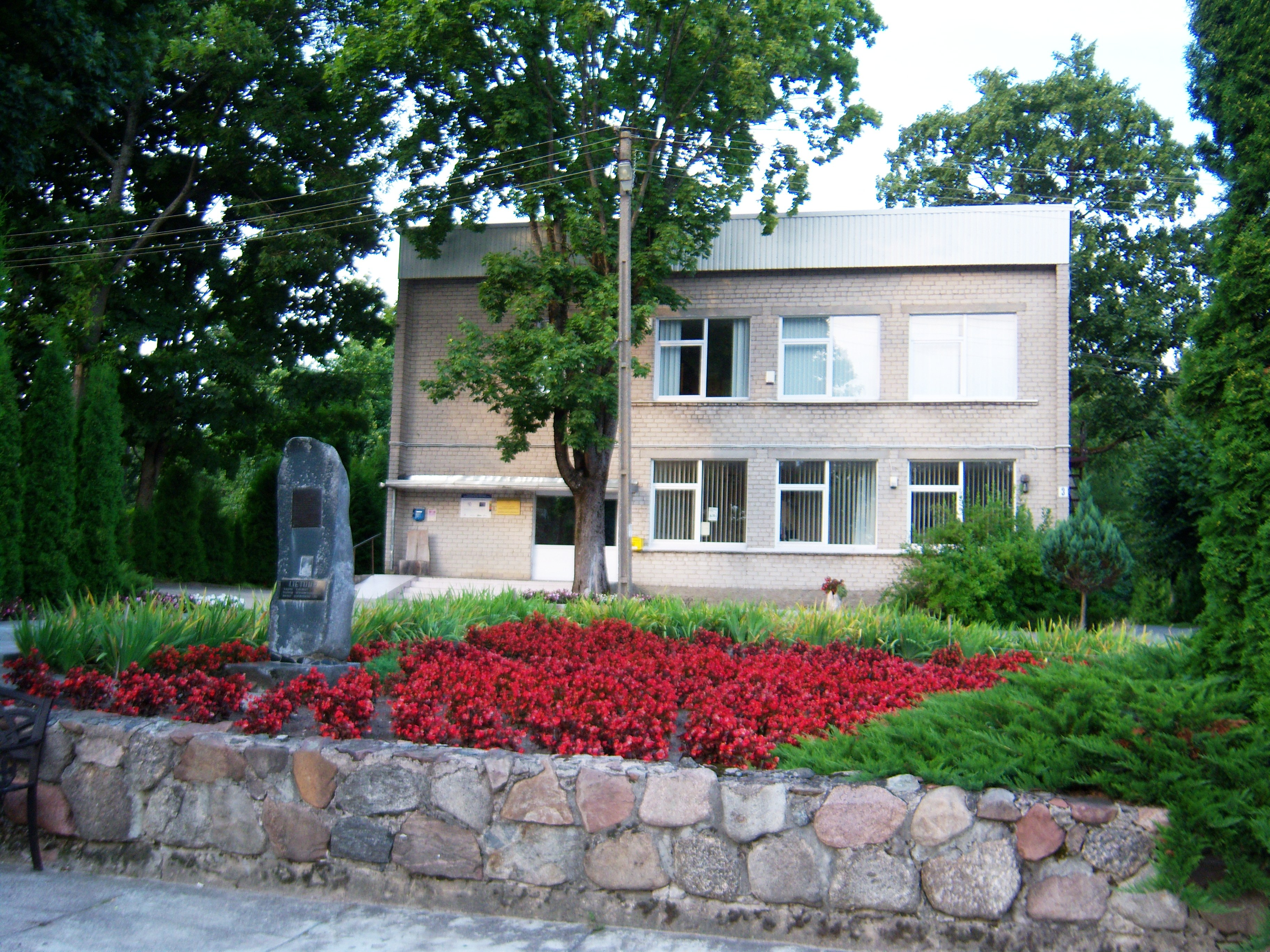 Endriejavas, Klaipėda District. Lithuania